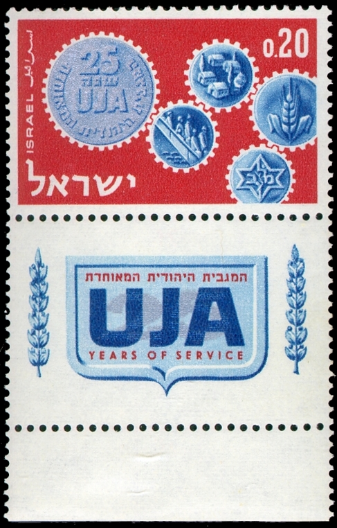 United Jewish Appeal stamp - 25 years.